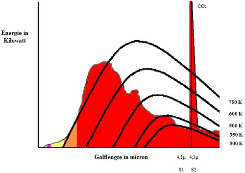 Warmtestraling (Black Body Radiation) Dutch, Jan Nijkamp, Sense-WARE Fire and Gas Detection BV